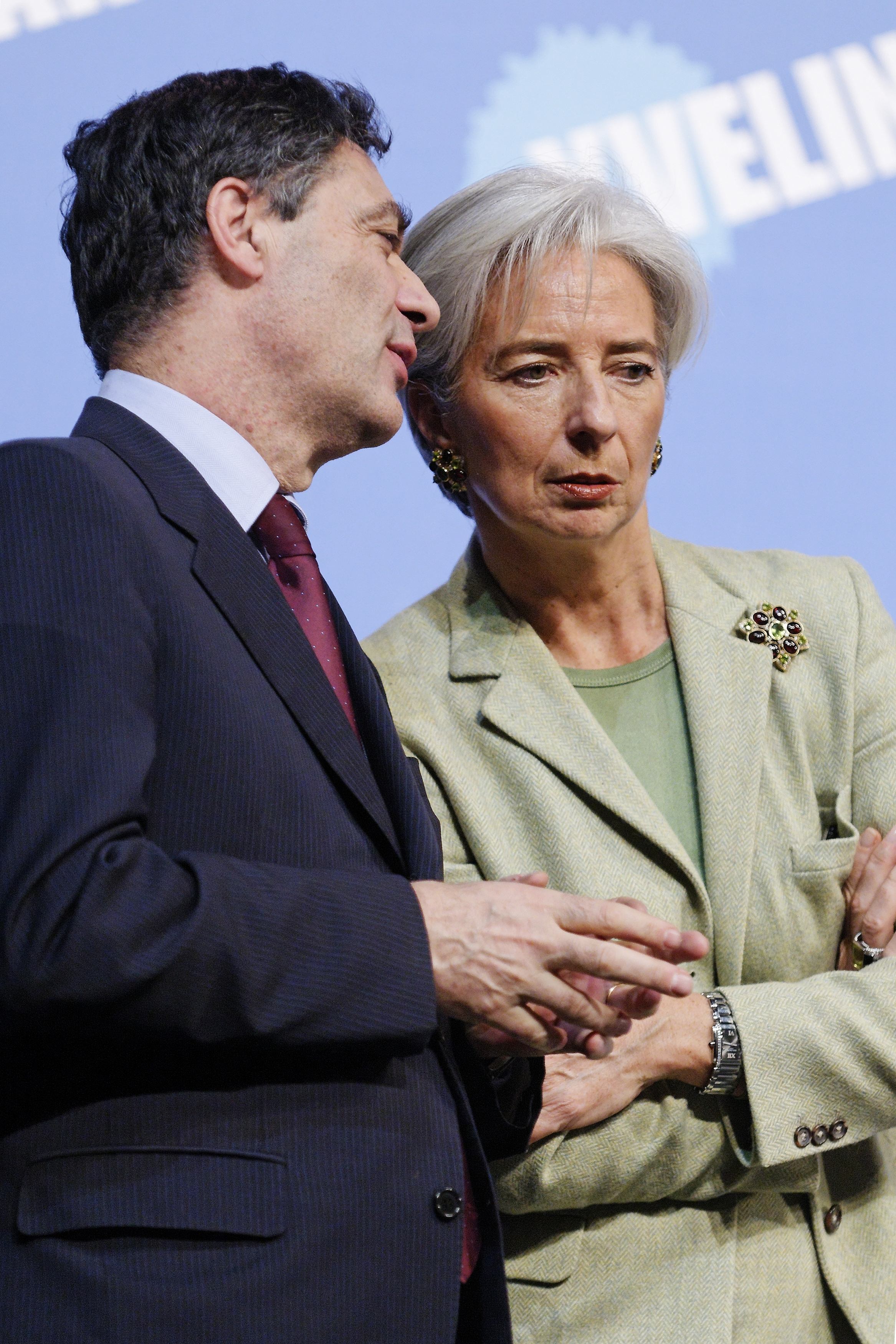 Patrick Devedjian and Christine Lagarde at a UMP rally for the 2010 French regional elections campaign in Issy-les-Moulineaux.